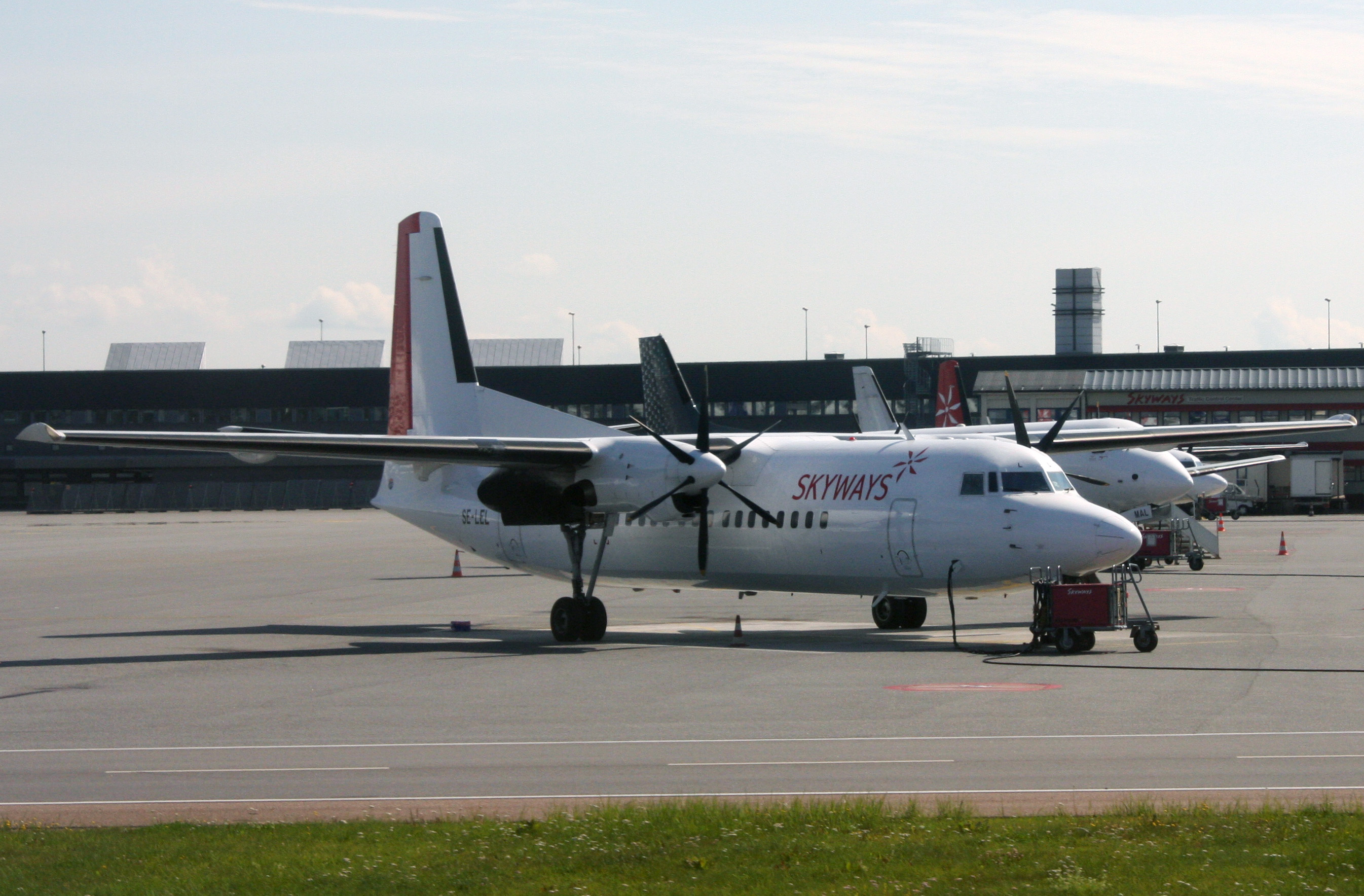 Skyways Fokker 50 in hybrid colours